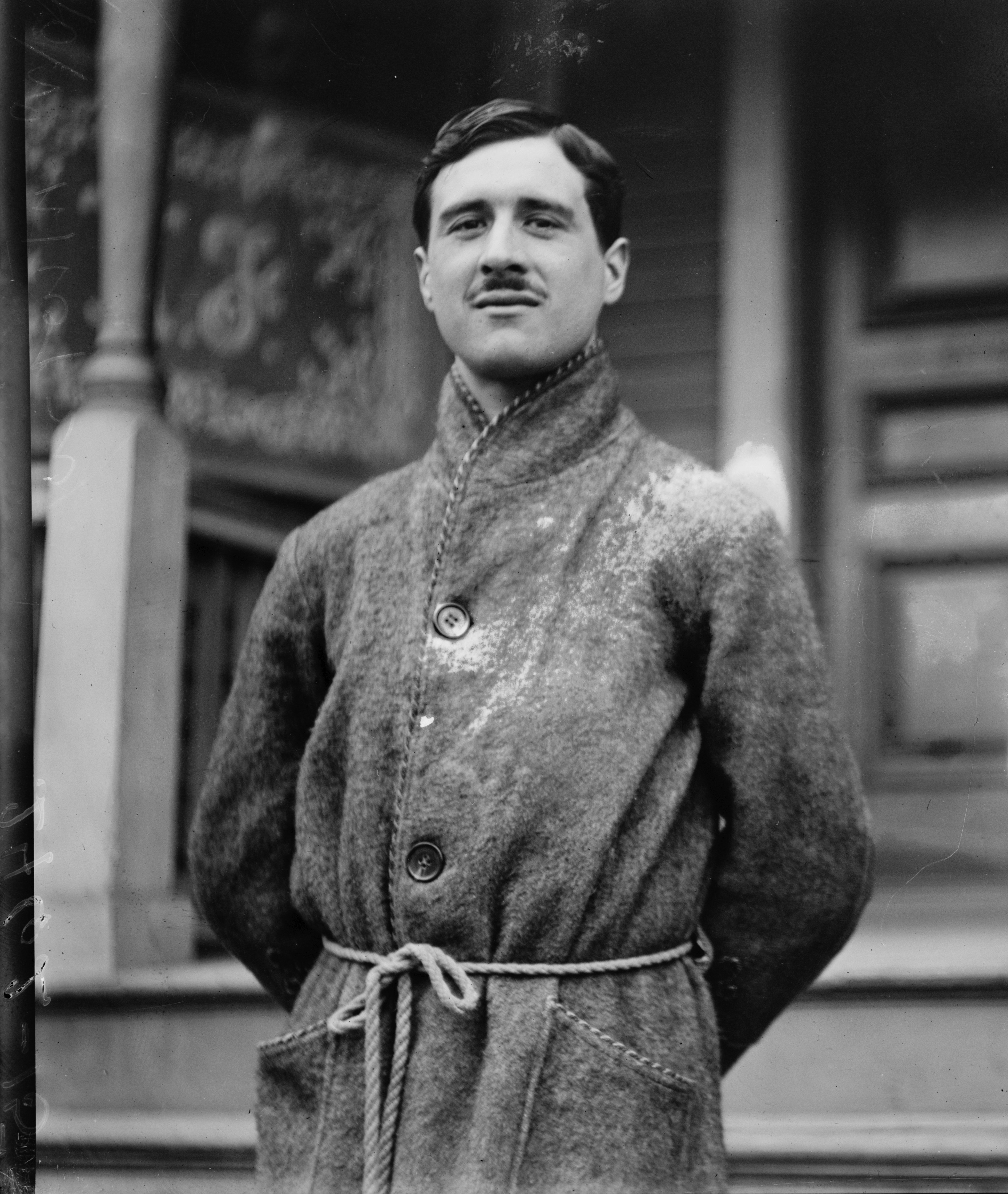 Marcel Berthet, 7/11/12